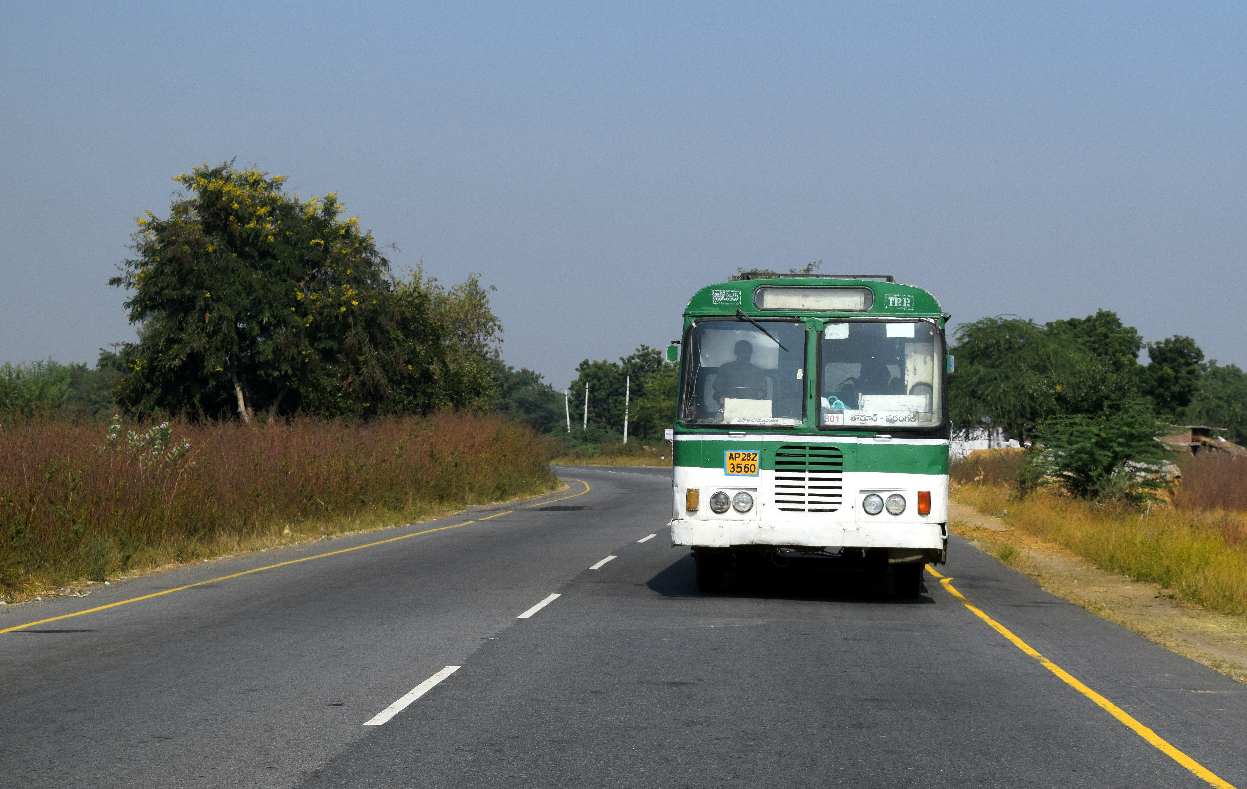 A passenger bus belonging to Telangana State Road Transport Corporation, India